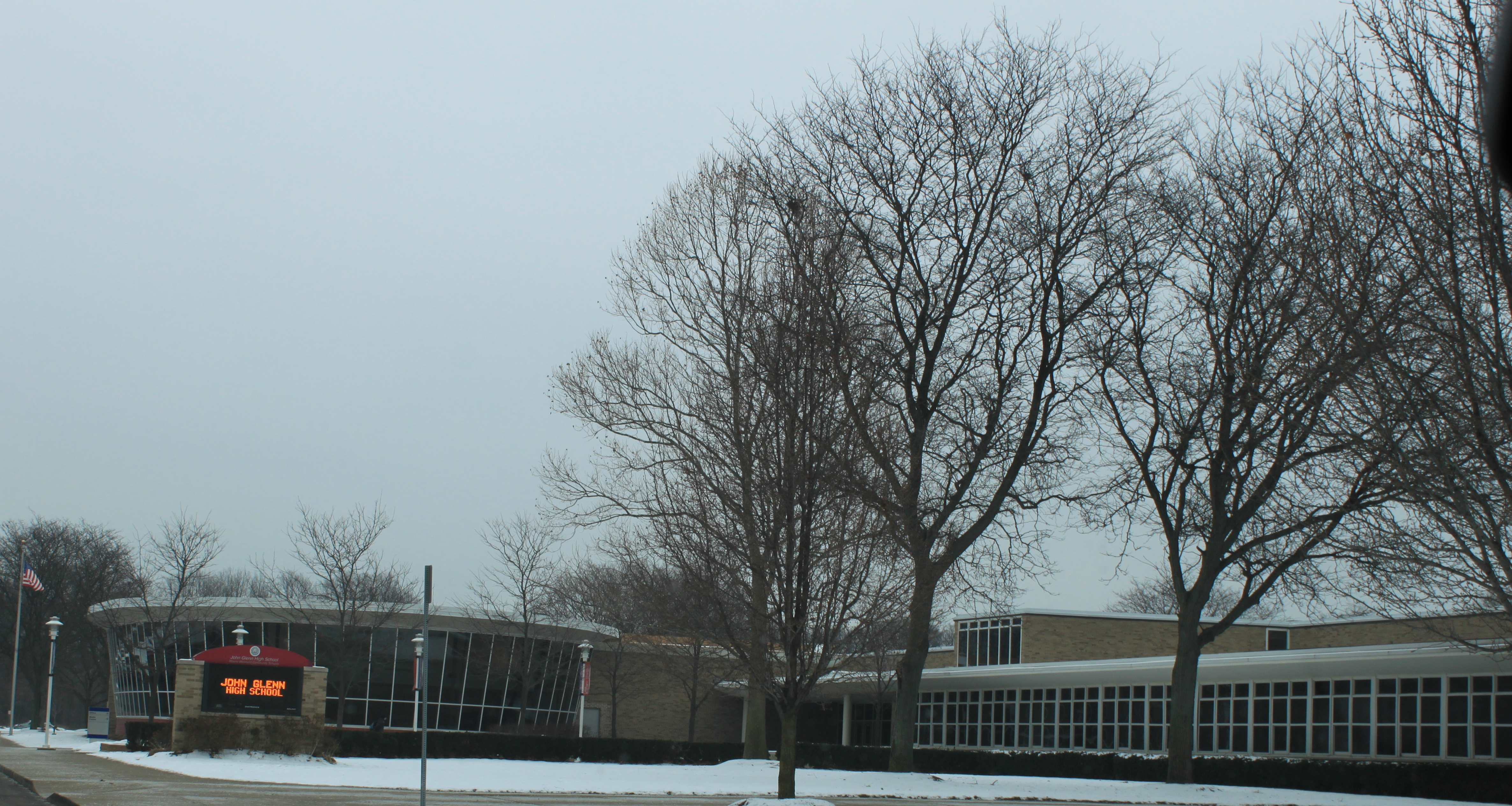 John Glenn High School, 36105 Marquette, Westland, Michigan